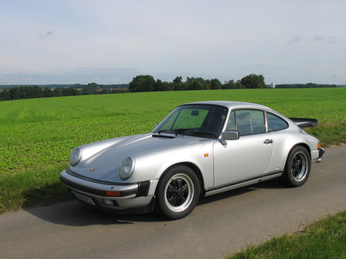 Silver 911 Carrera with 3,2 l cylinder capacity. Photo taken in administrative district Uelzen at locality Hanstedt I, Germany.